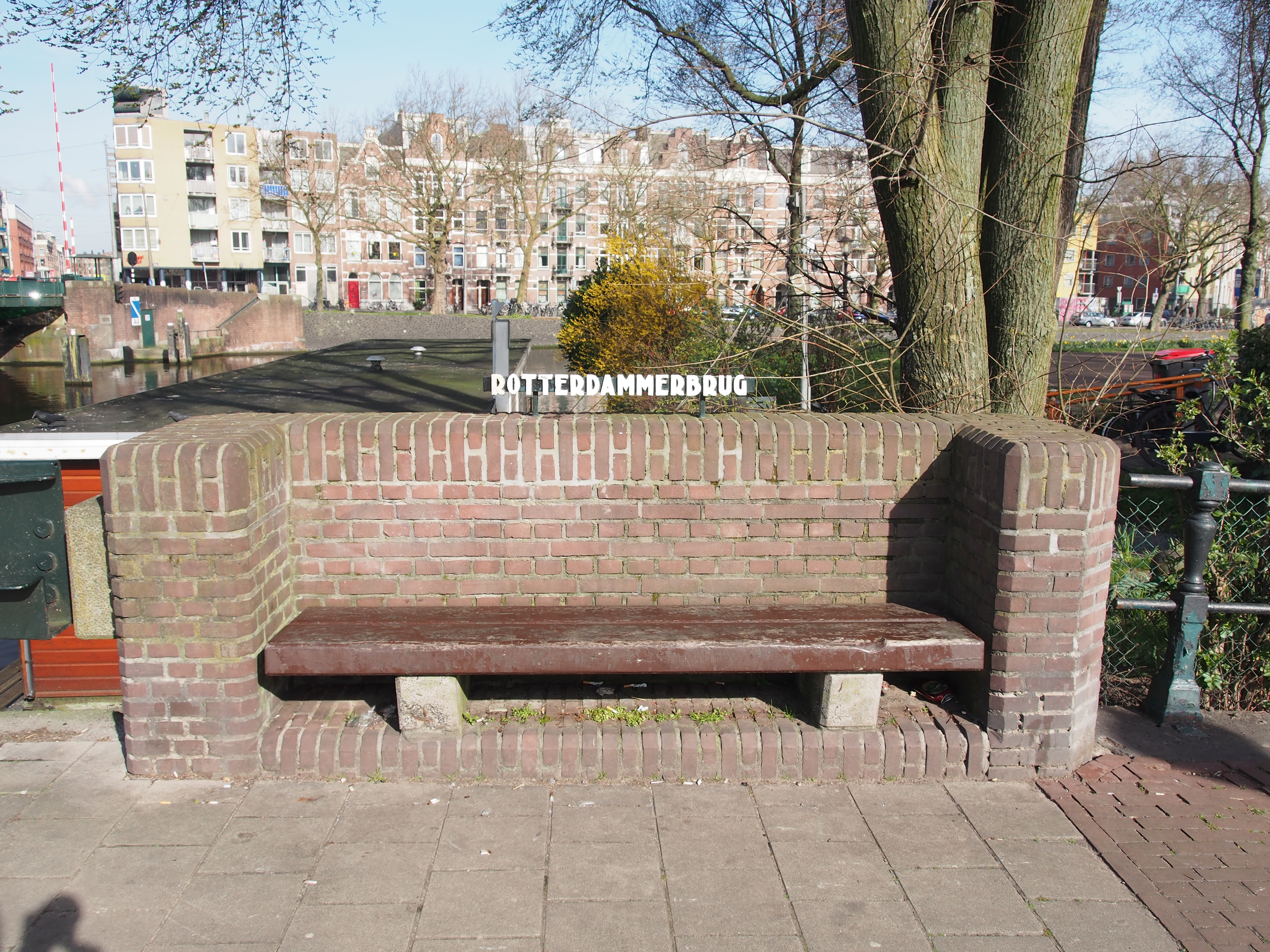 Photographed at Amsterdam, The Netherlands.